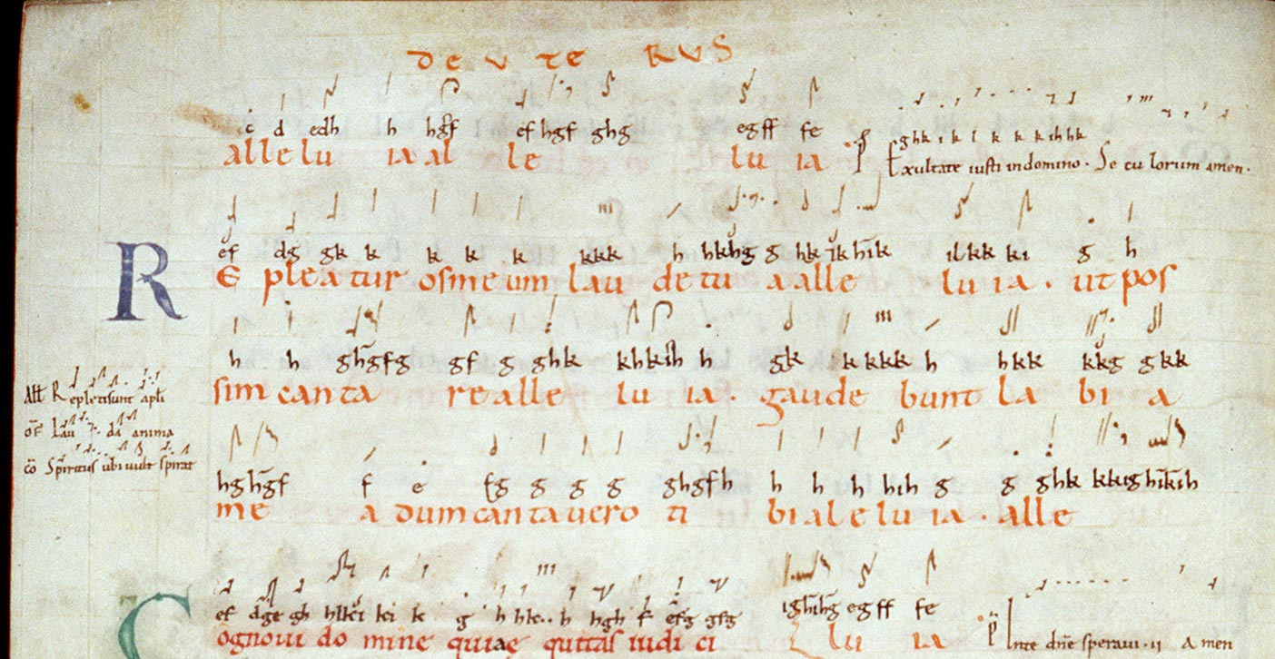 The Introit "Repleatur os meum" of the authentic deuterus mode with the psalm 70 "In te domine speravi" and its psalm tone ending (differentia) in William of Volpiano's fully notated Tonary (Abbey Saint-Bénigne of Dijon, end of 10th century)